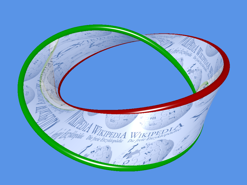 A Hopf link with one of its Seifert surfaces, which is called a Hopf band.